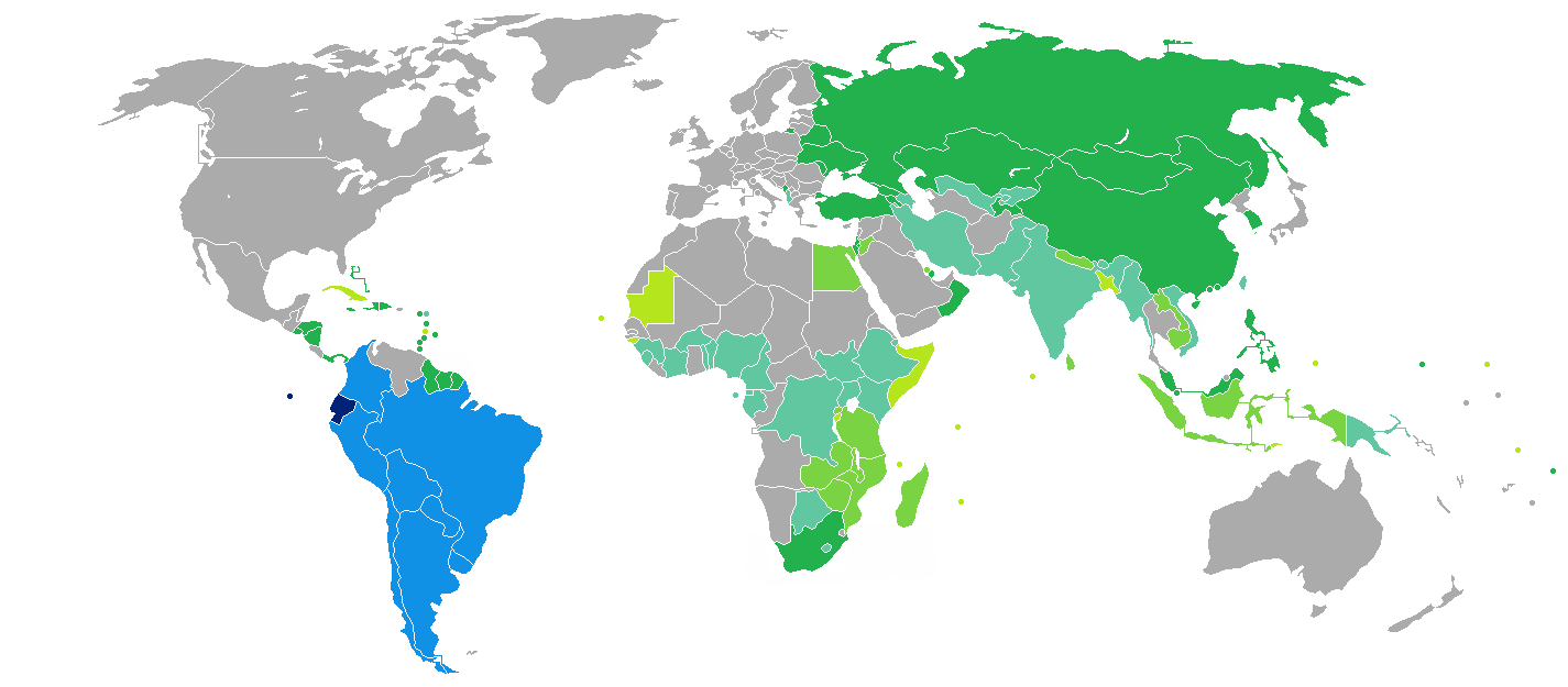 Visa requirements for Ecuadorian citizens Ecuador Travel with ID card Visa free access Visa on arrival eVisa Visa available both on arrival or online Visa required